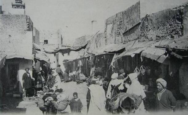 Souk Es Sabbagine in Sfax